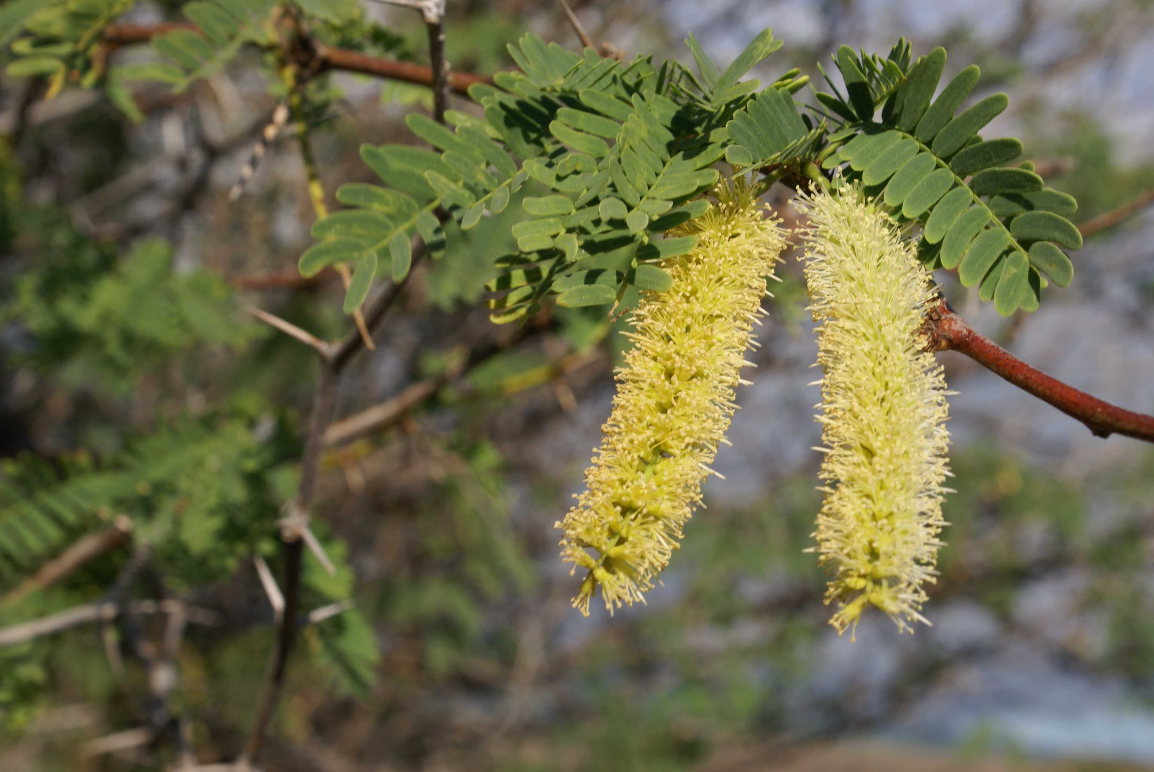 flowers of Prosopis juliflora